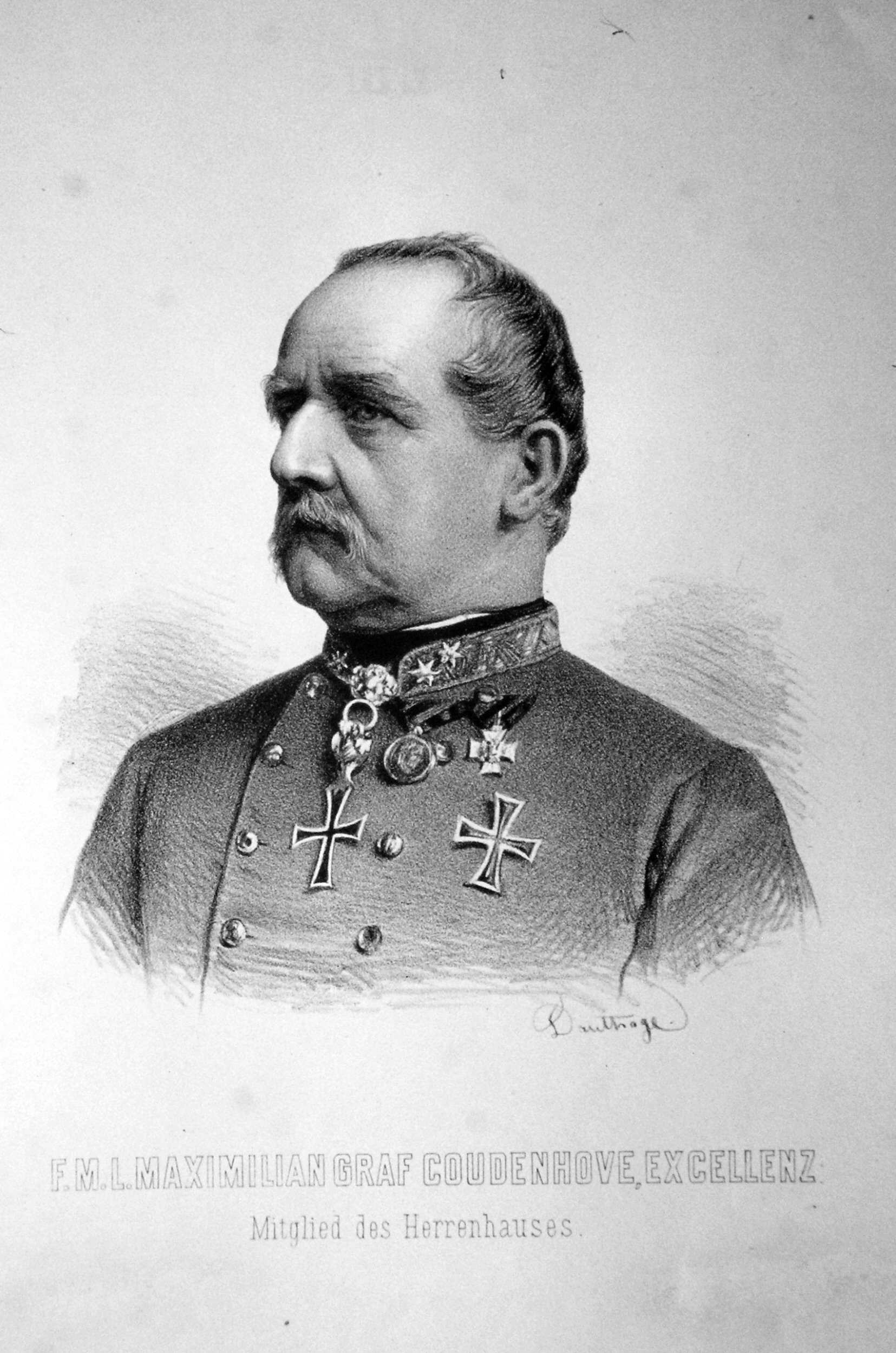 Maximilian Graf Coudenhove (1805-1889), Austrian General Lithograph by Adolf Dauthage